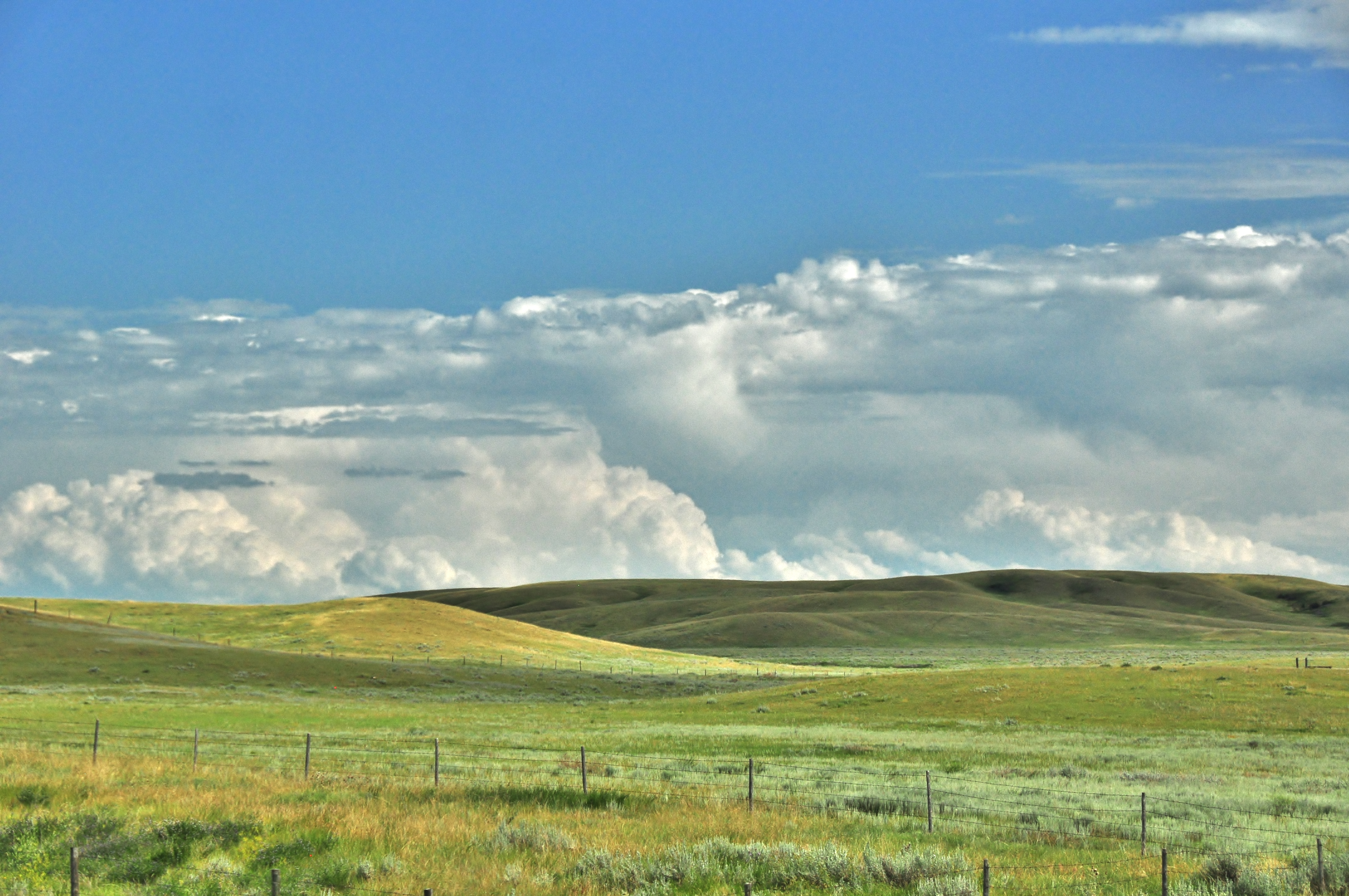 Prairie along the Trans-Canada Highway in eastern Alberta near Medicine Hut